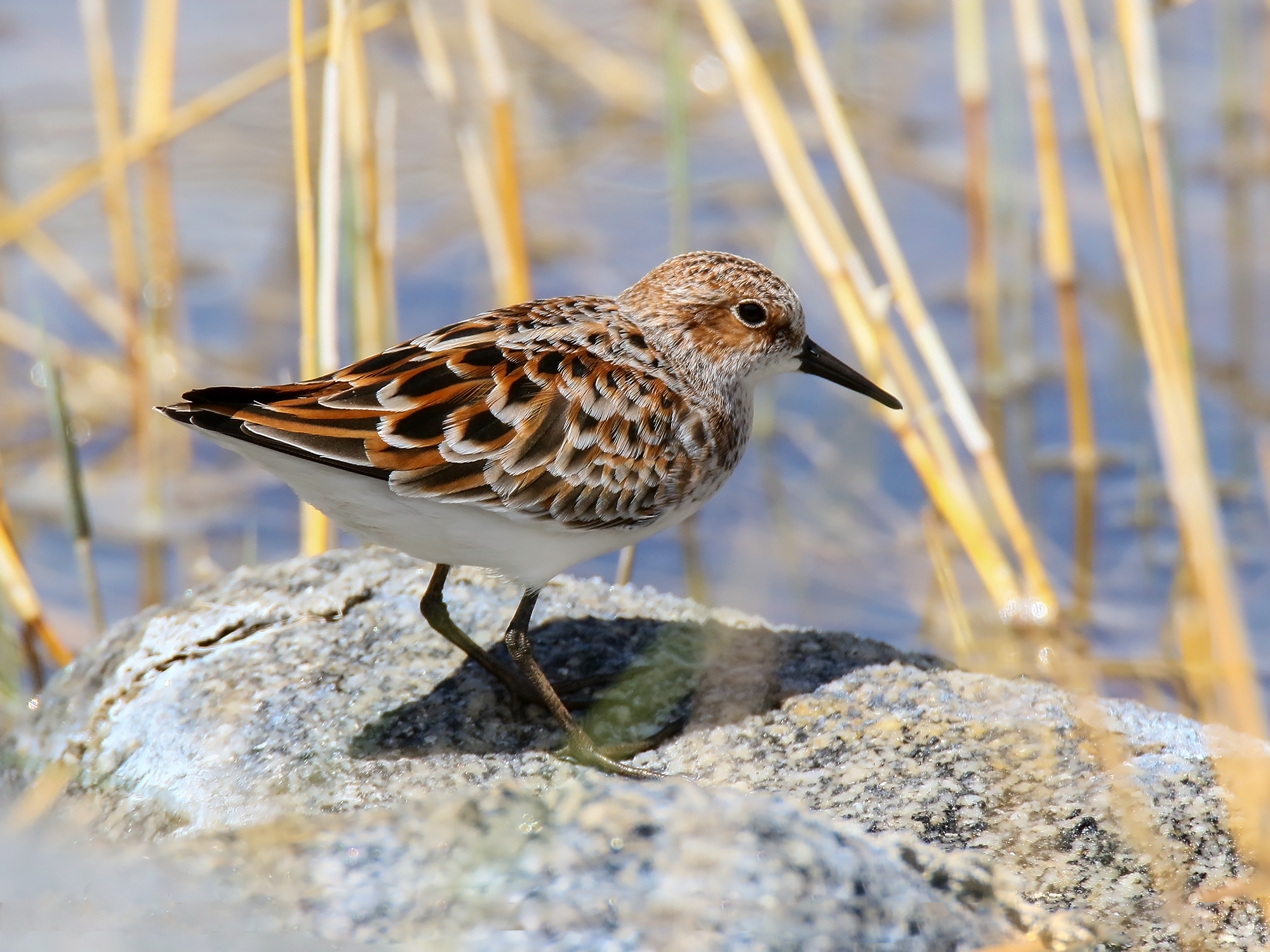 Little Stint (Calidris minuta) captured at Borit, Gojal, Gilgit-Baltistan, Pakistan with Canon EOS 7D Mark II